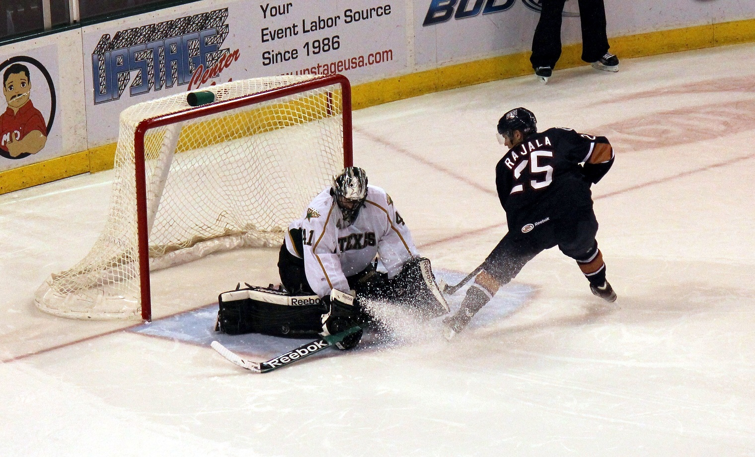 Cristopher Nihlstorp of the Texas Stars stops a shootout attempt by Toni Rajala of the Oklahoma City Barons